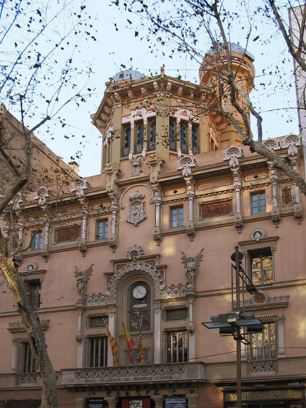 Rambla, Teatre Poliorama